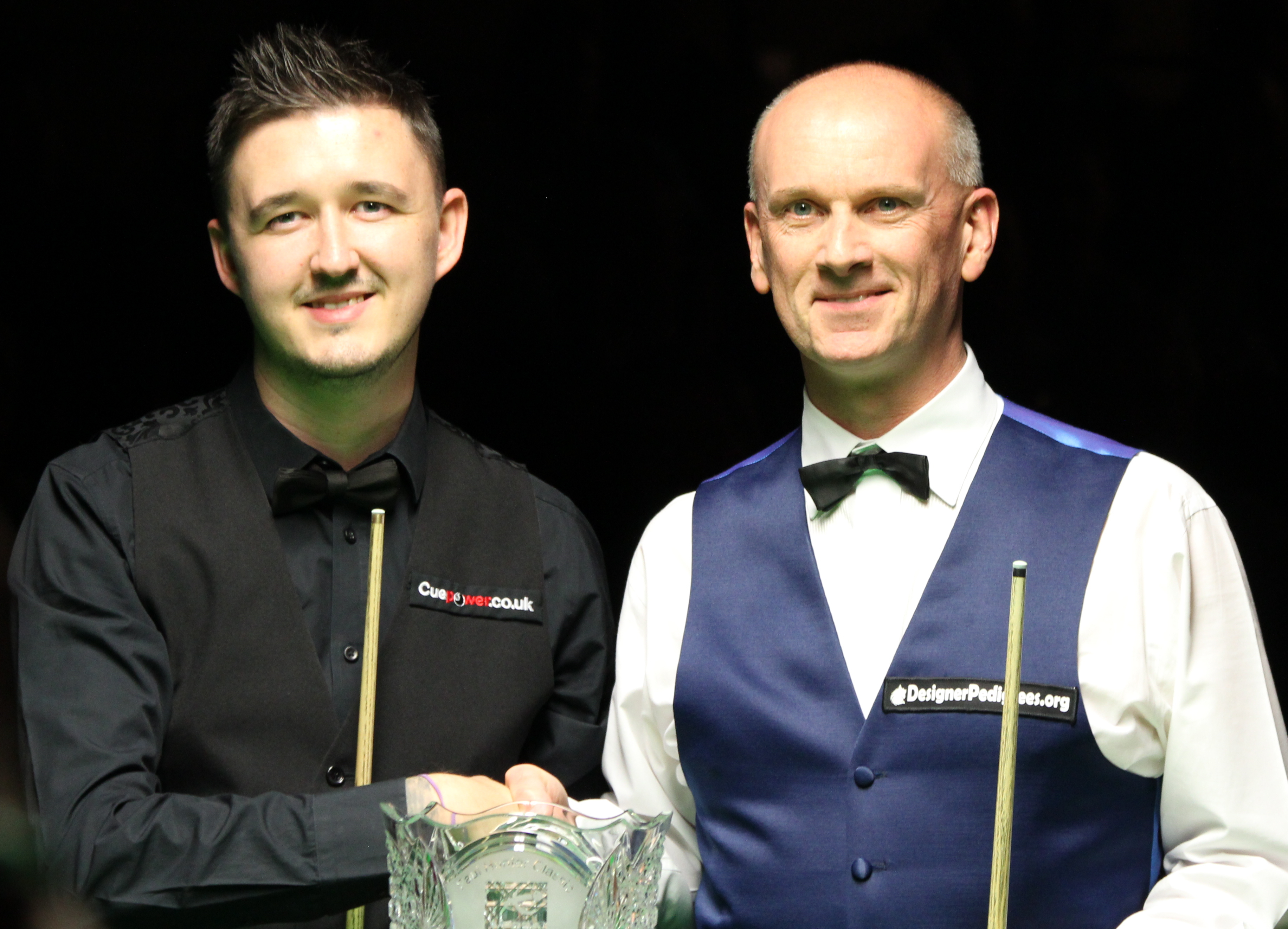 Kyren Wilson and Peter Ebdon before the final of the Paul Hunter Classic 2018